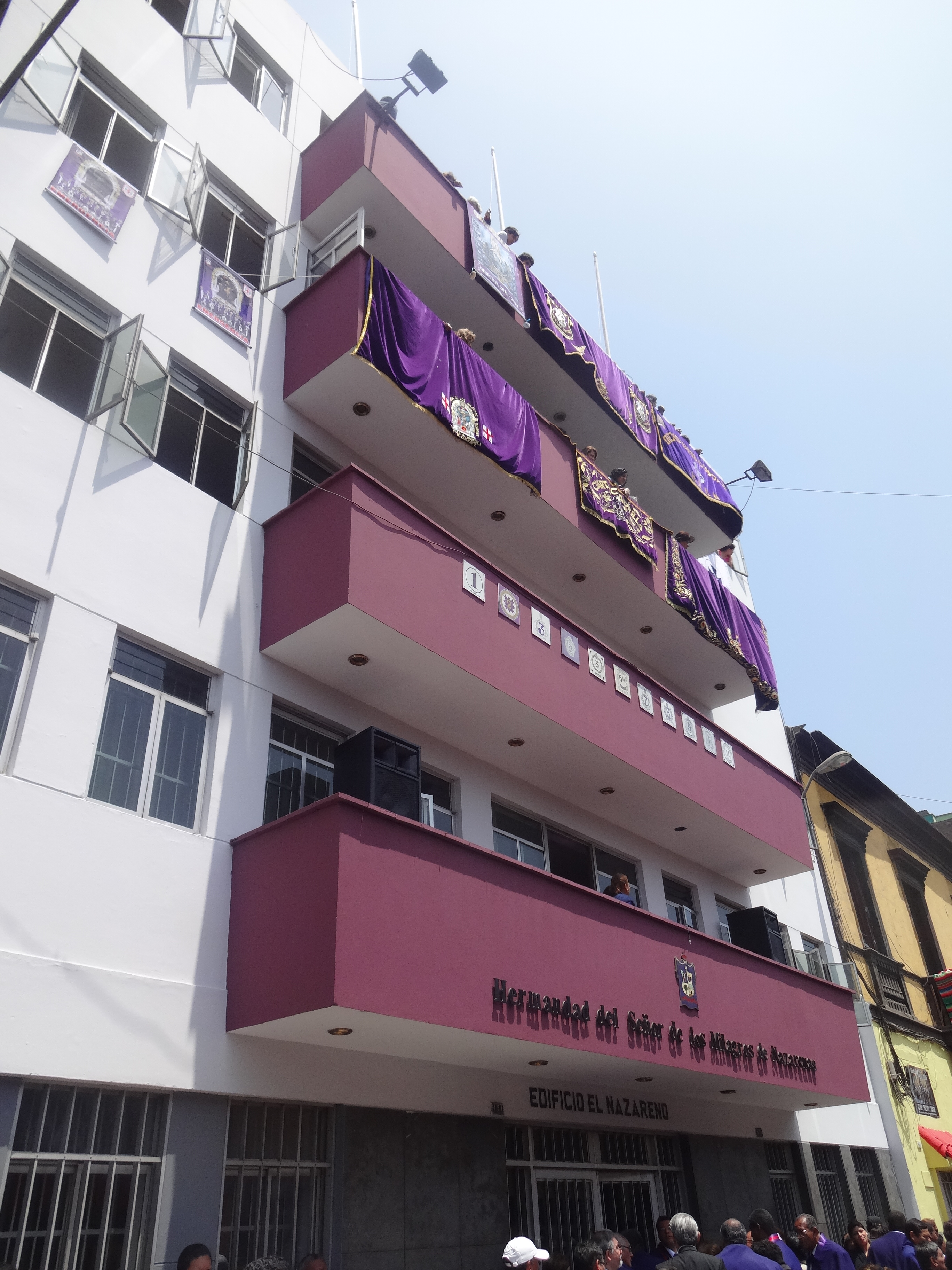 "El Nazareno" Building - institutional home of the Brotherhood of the Lord of Miracles of Nazarenas, Lima-Peru.